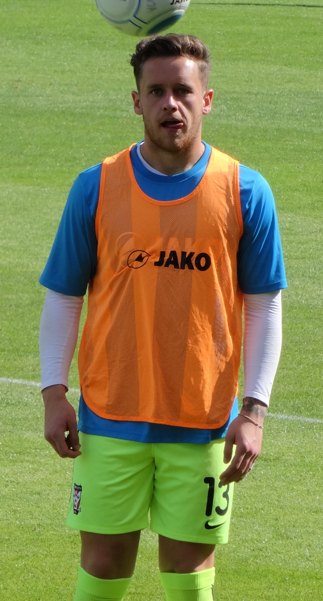 Luke Simpson training with York City during half-time against Boreham Wood at Bootham Crescent, York on 13 August 2016